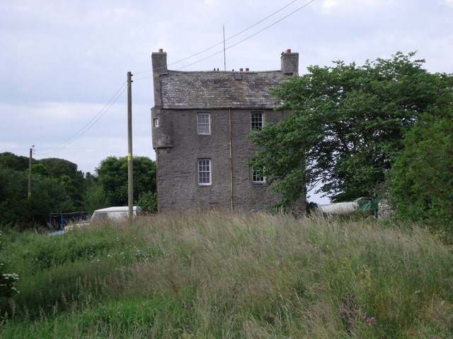 Isle of Whithorn, Isle Castle The castle is inhabited, but it is visible from the main street.